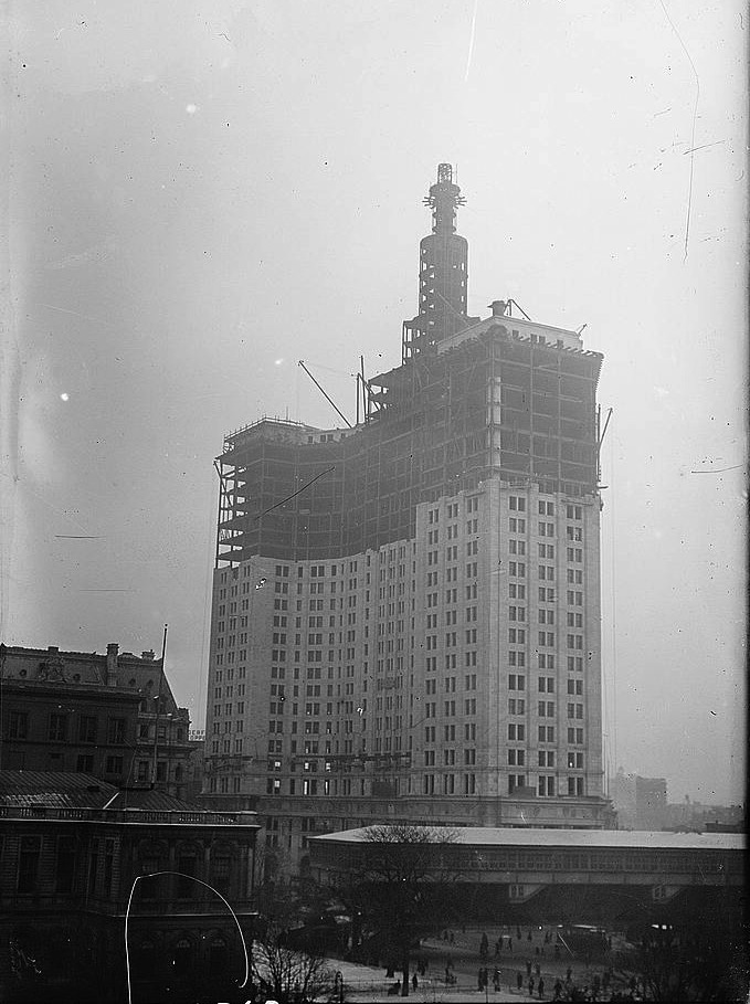 construction of Manhattan Municipal Building in New York City, circa 1912.